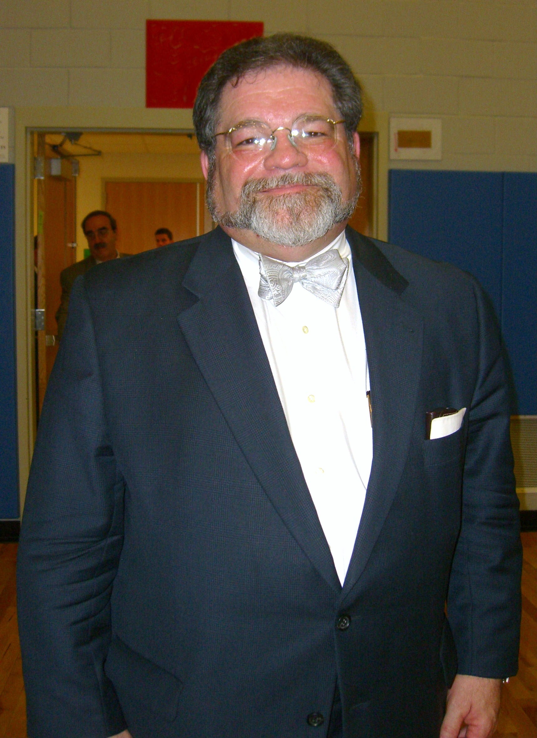 New Jersey Supreme Court Justice Roberto A. Rivera-Soto at the inaugural commencement ceremony of Union City High School in Union City, New Jersey, where he gave the keynote address, June 23, 2010. Photo by Luigi Novi. This photo may be used and modified, for any purpose, only if the photographer is visibly credited in each instance in which it is used. (See licensing information below.) For more information on my photos, you can contact me here.